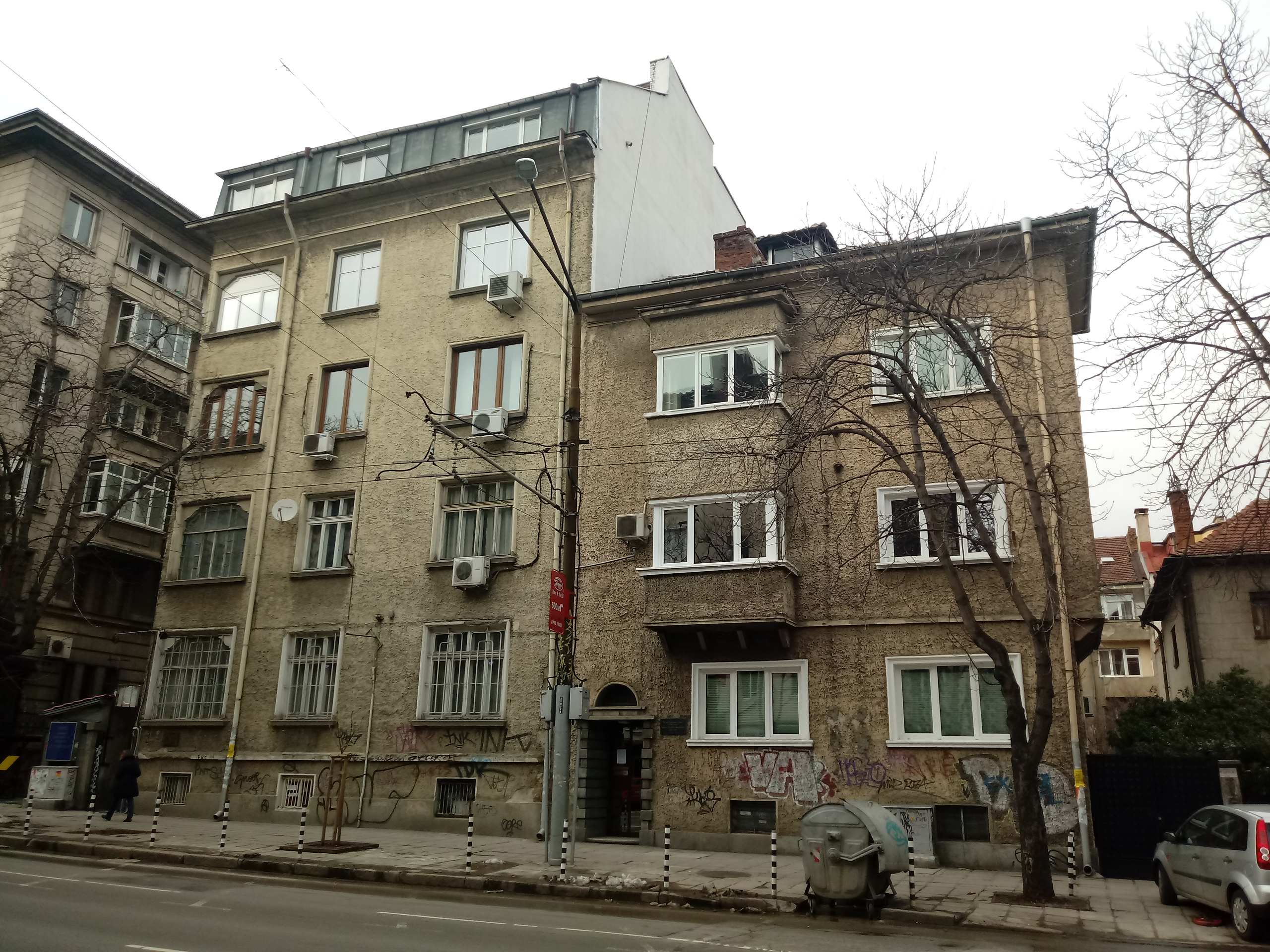 Vaska Popova-Balareva home with memorial plaque, 32 Patriarch Evtimiy Blvd., Sofia